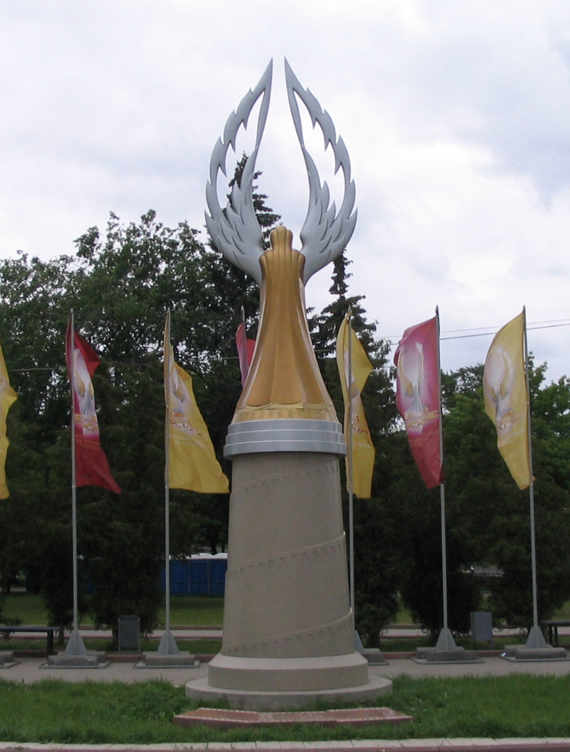 Ivanovo, Russia, International film festival "Zerkalo" named after Andrei Tarkovsky stele